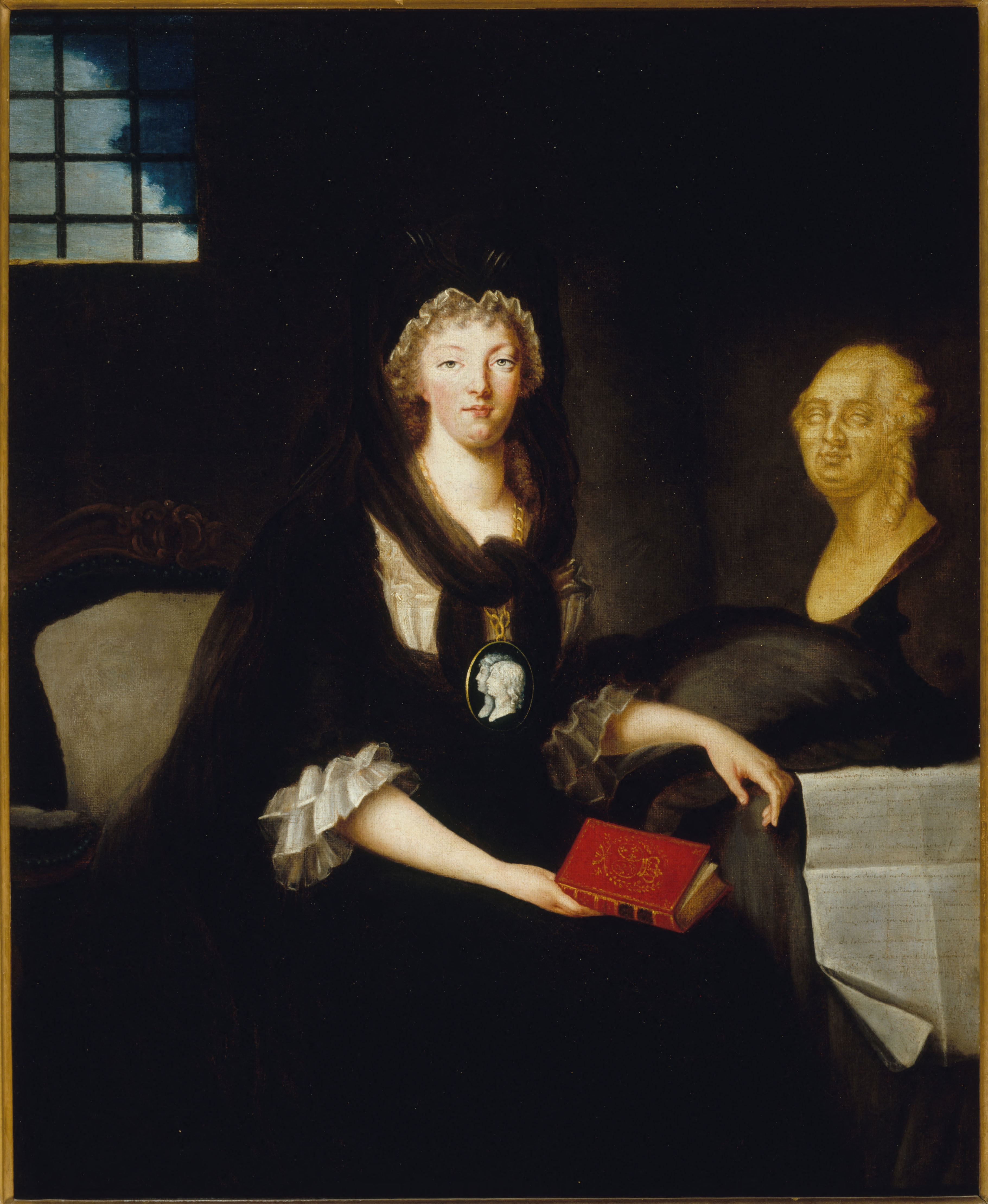 Portrait of Marie Antoinette at the Conciergerie, in mourning, with a cameo pendant portraying the Dauphin, holding a life of Mary, Queen of Scots, a bust of Louis XVI and the Testament of 23 December 1792 on the draped table beside.